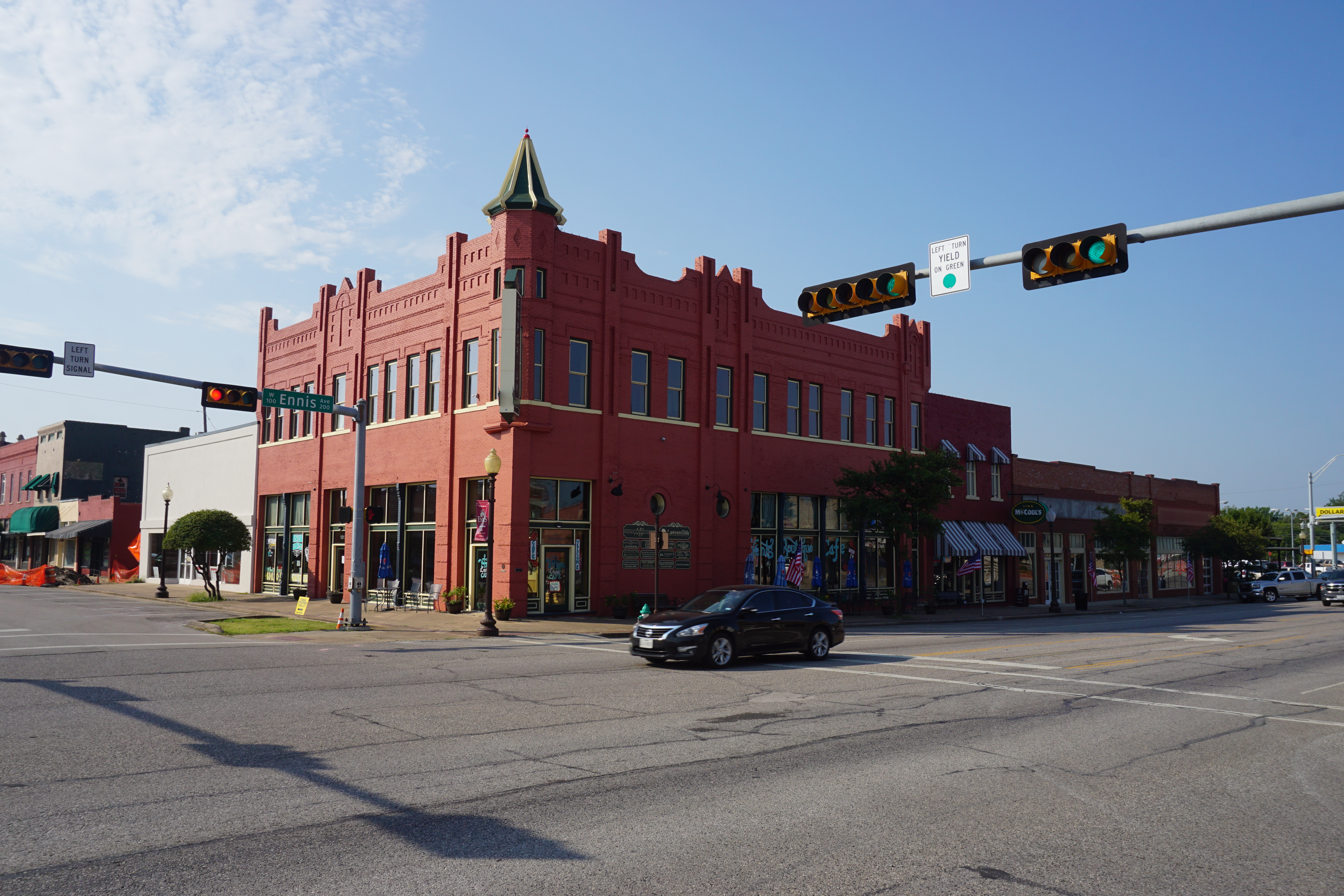 The Vintage Cross Café in Ennis, Texas (United States).